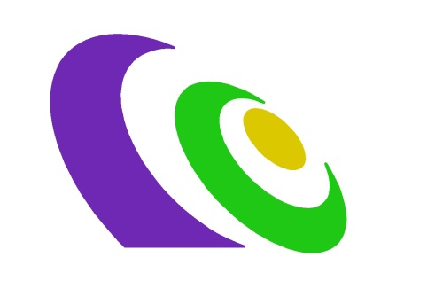 Flag of Kaga Ishikawa